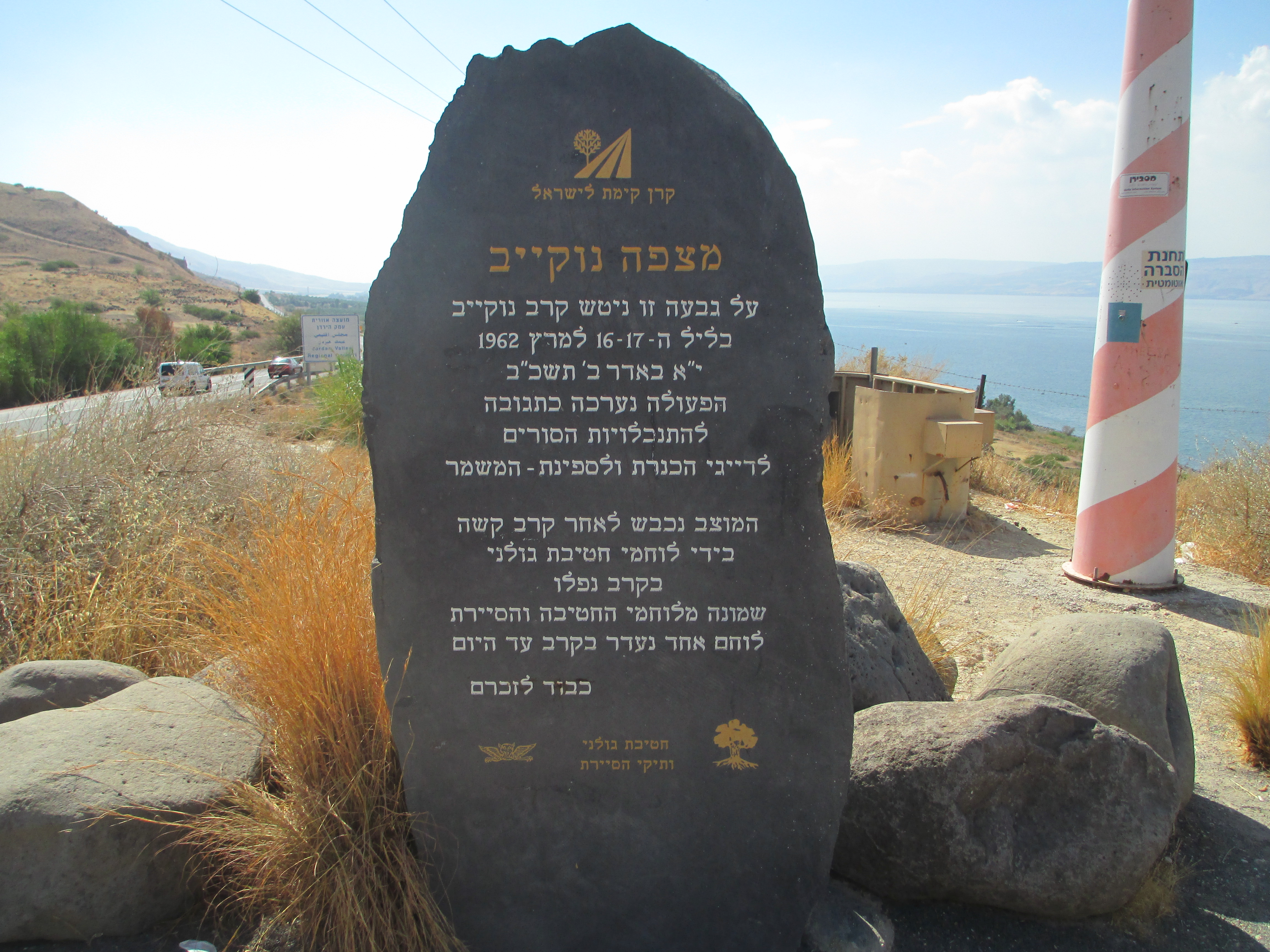 Nukeib war memorial, north to kibbutz ein-gev